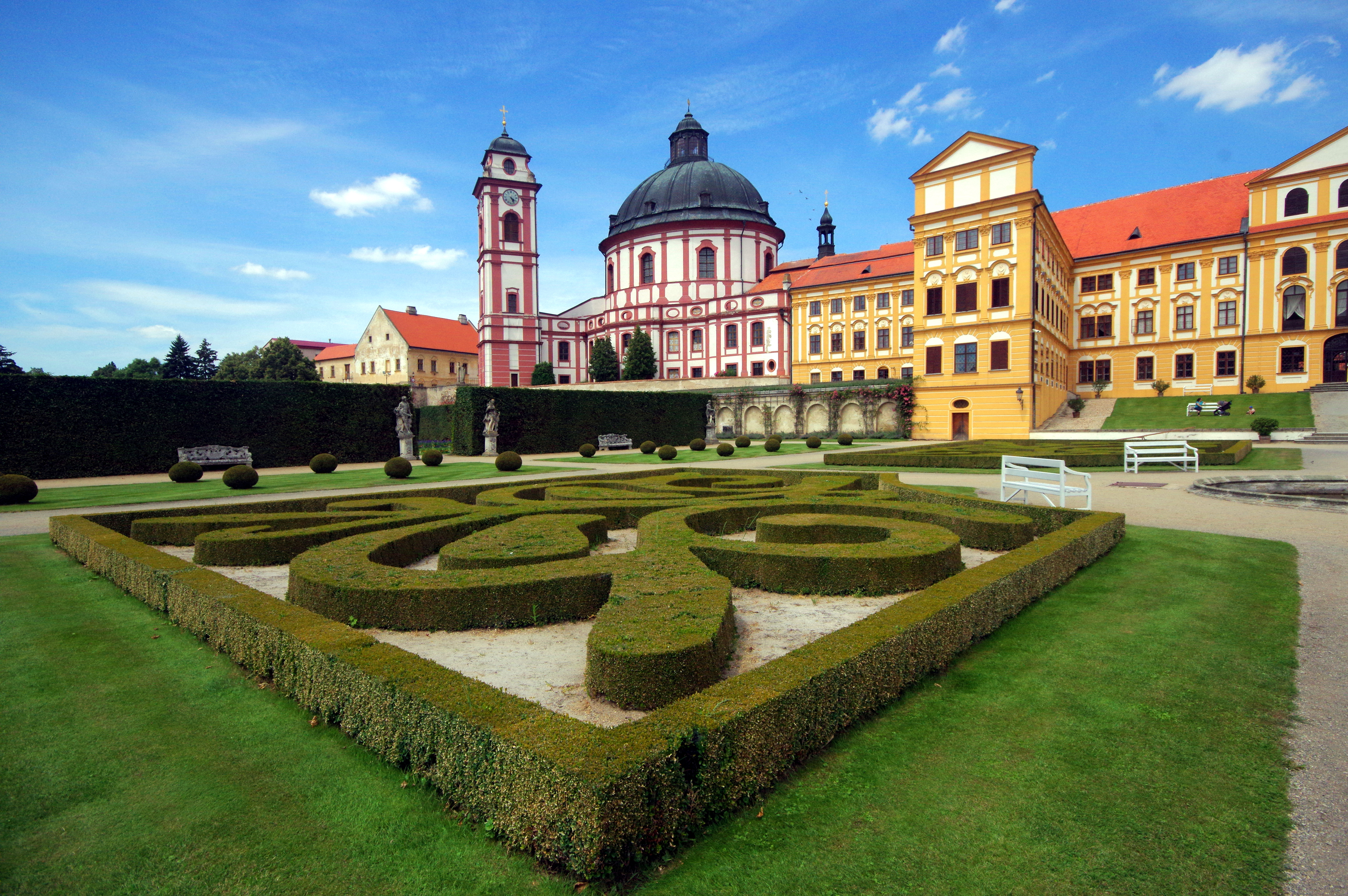 8.7.16 Jaromerice nad Rokytnou